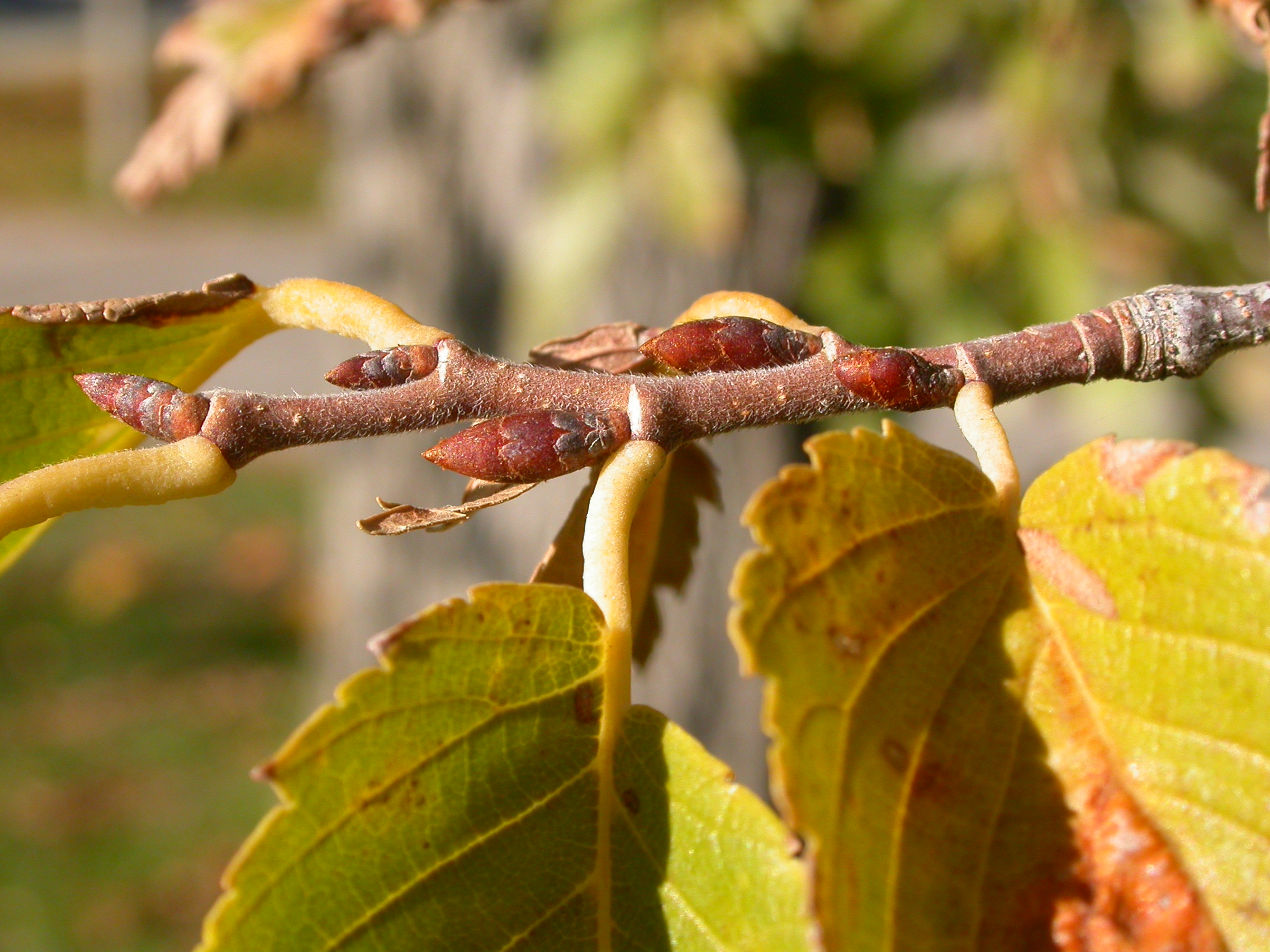 The buds of the American elm are longer (less squat) and projected in the same direction as the subtending branch.